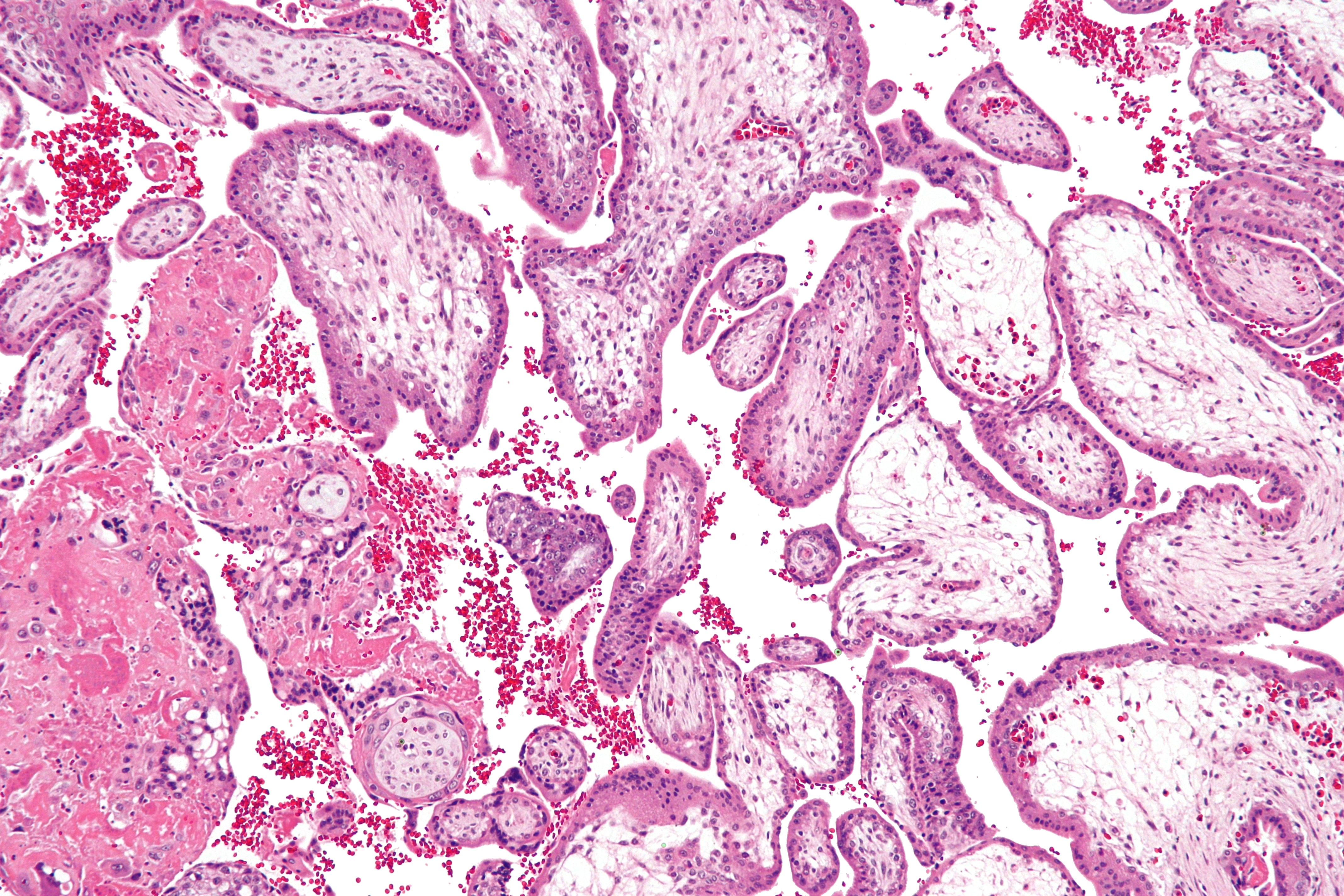 Intermediate magnification micrograph of products of conception (chorionic villi). H&E stain. Related images Low mag. Intermed. mag. Low mag. Intermed. mag. High mag. Very high mag.